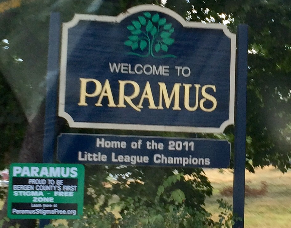 The Welcome to Paramus, New Jersey sign with stigma free.